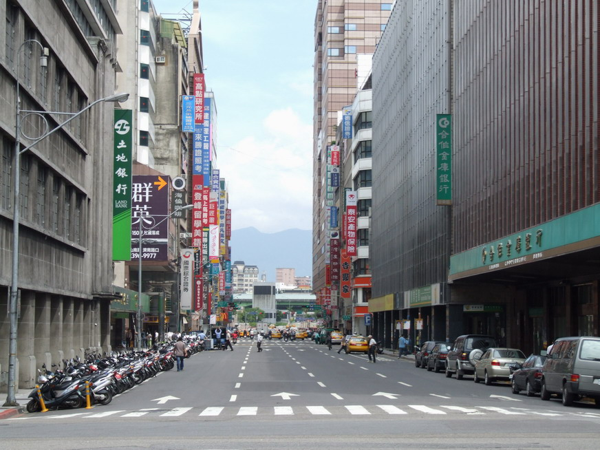 Guanqian Road, from National Taiwan Museum to Taipei Station.